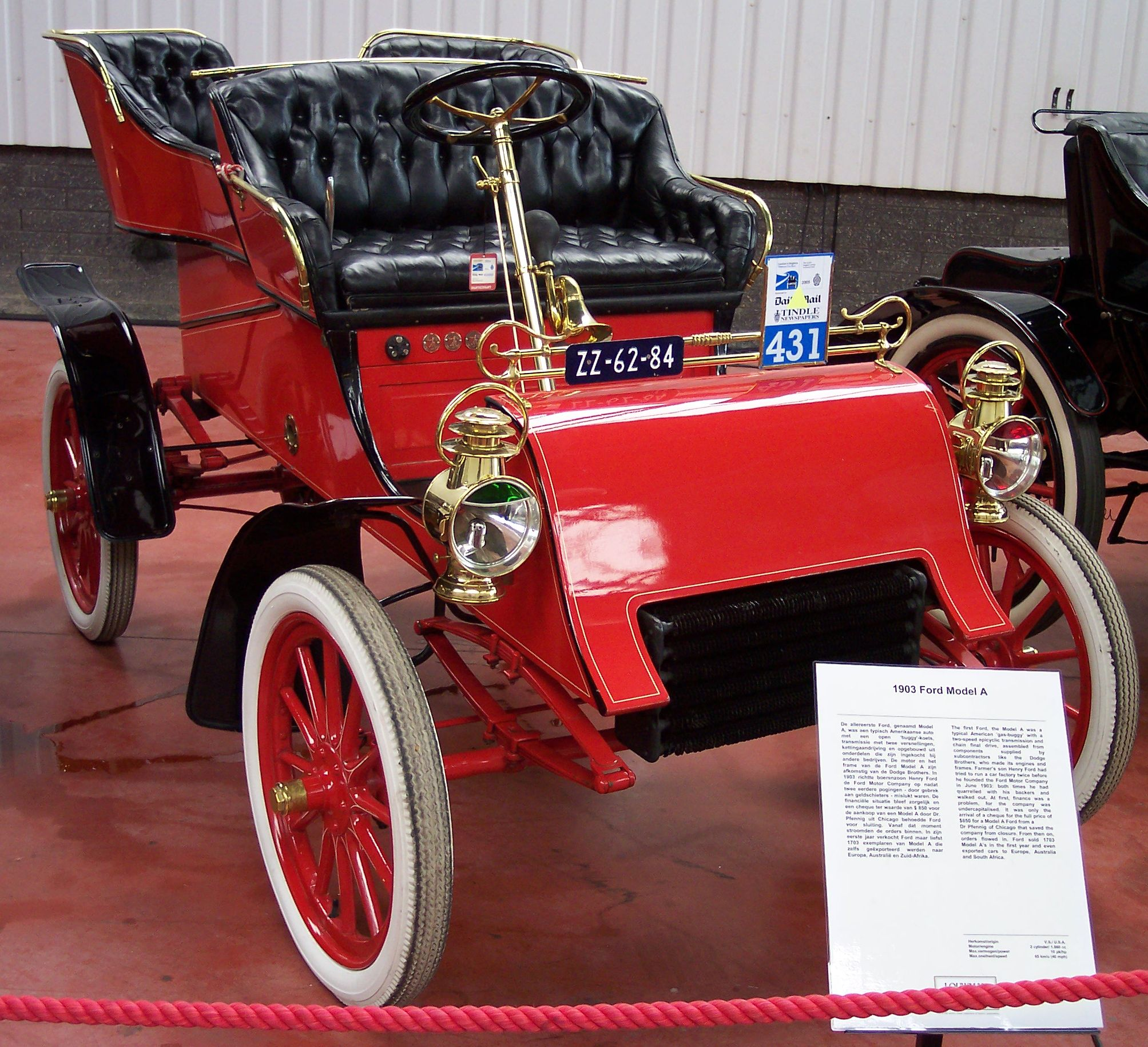 A Ford Model A from 1903.